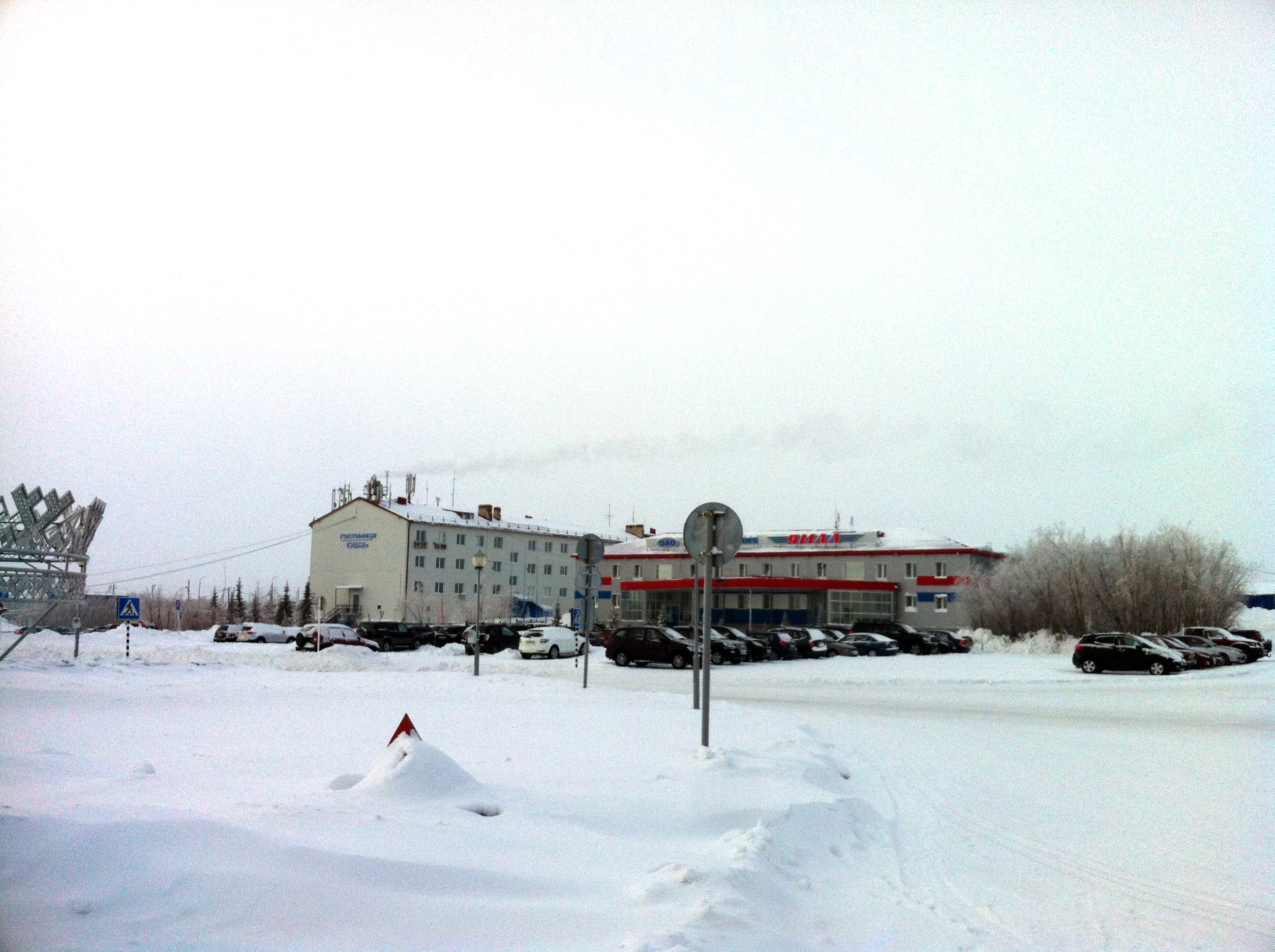 View of Yamal Airlines Headquarters and hotel «Ob» nearby Salekhard airport.